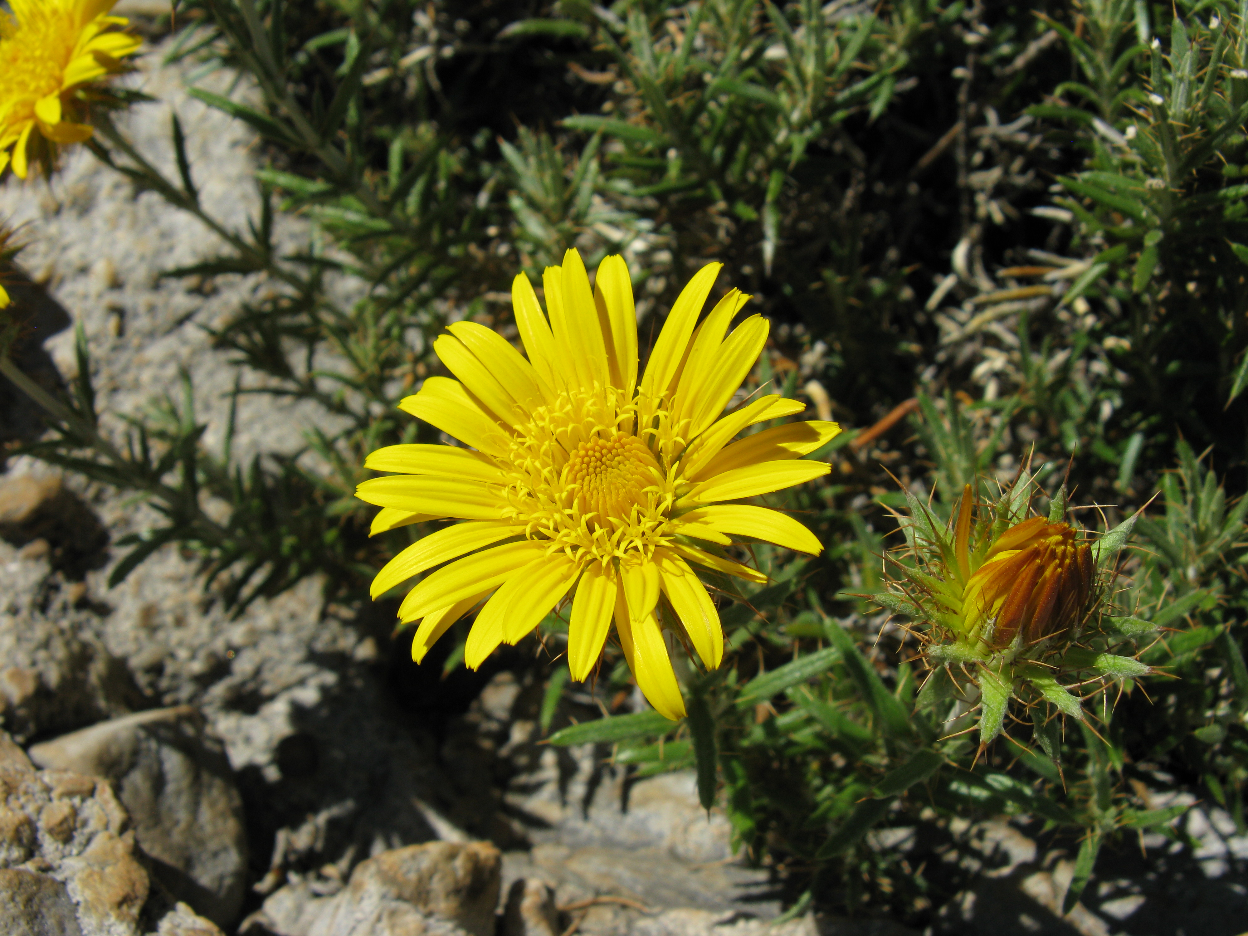 Cullumia spec. flowering on rocky hillside Near Uniondale South Africa. Google Earth coordinates=-33.777 23.087.